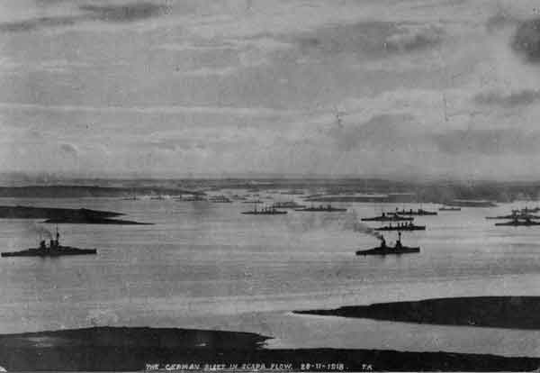 Surrender and scuttling of the German fleet at Scapa Flow